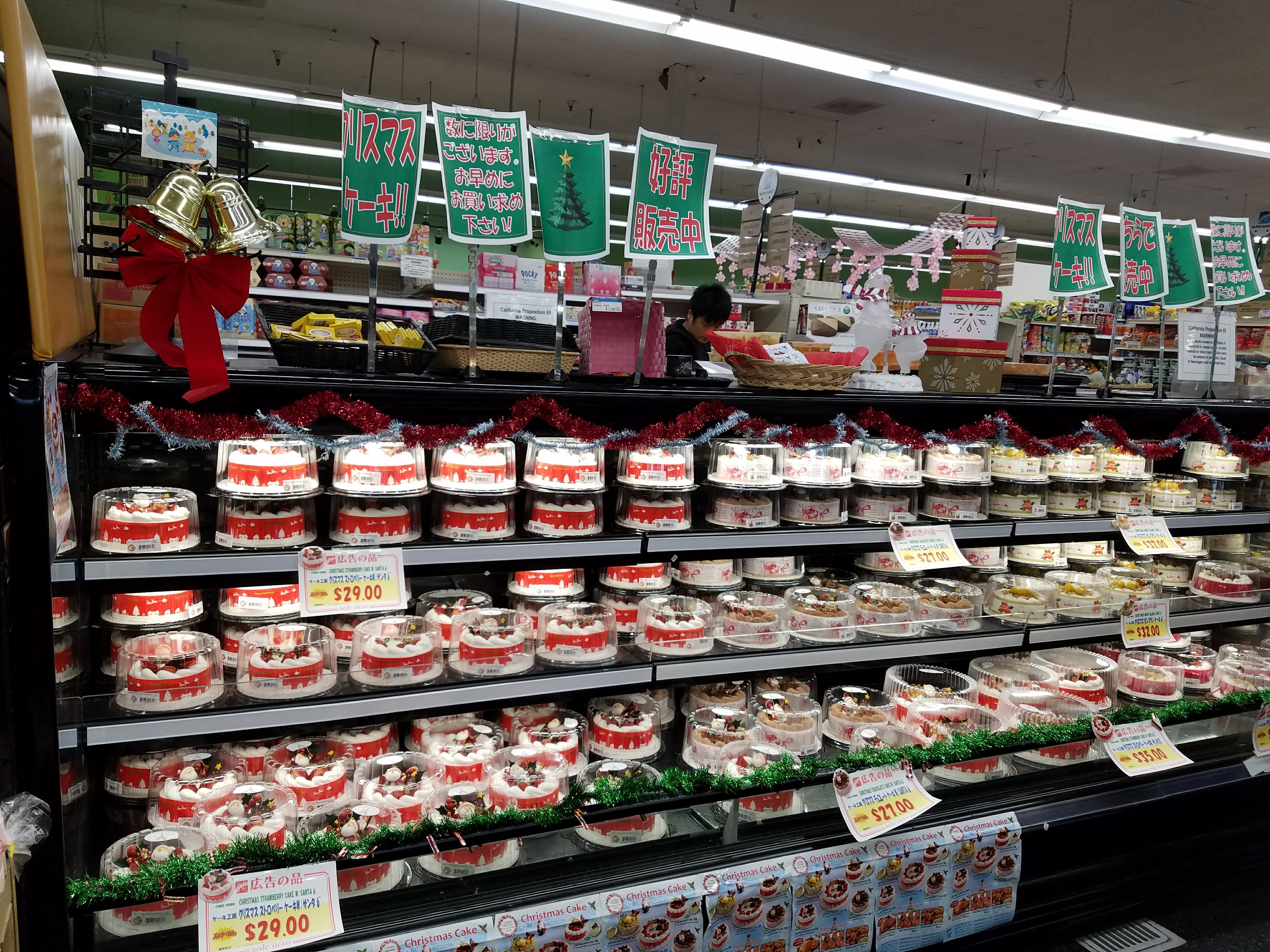 クリスマス ケーキ (Christmas cakes) at Nijiya Market in San Diego, California.